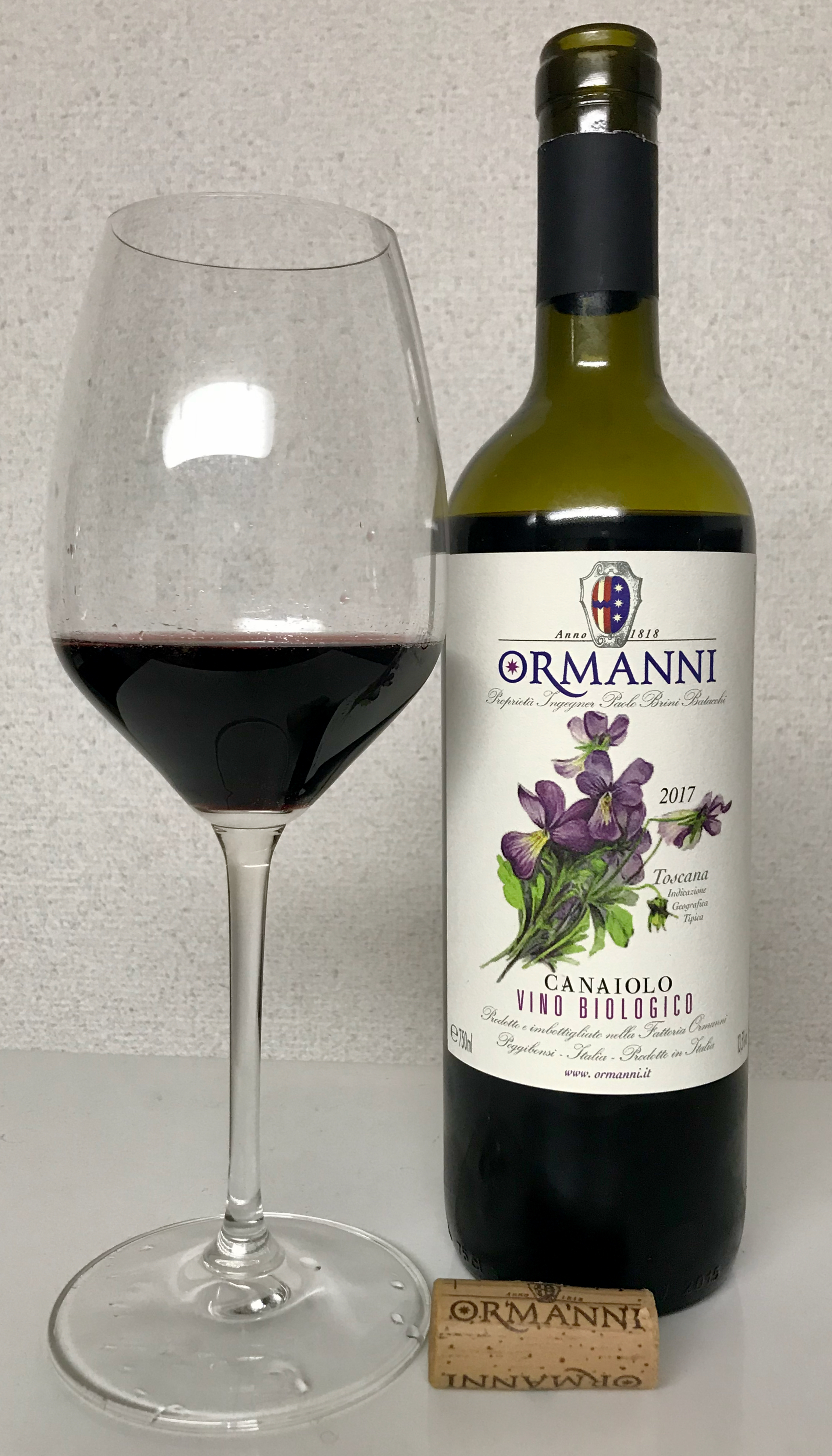 トスカーナ産カナイオーロ（・ネロ）のセパージュワイン (IGT) を抜栓しグラスに注いだもの